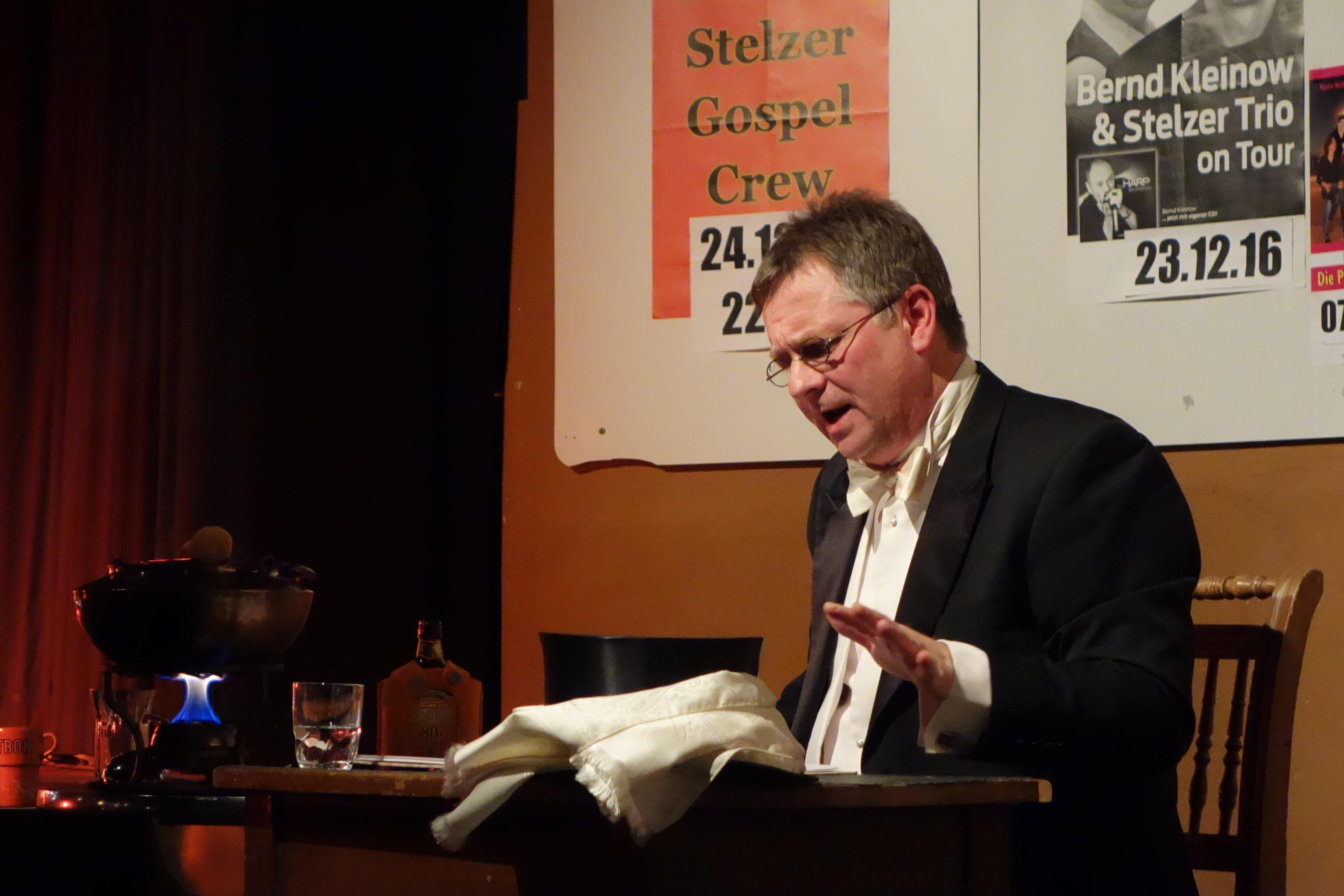 Hagen-Hubert Möckel on stage in Pirna, Germany